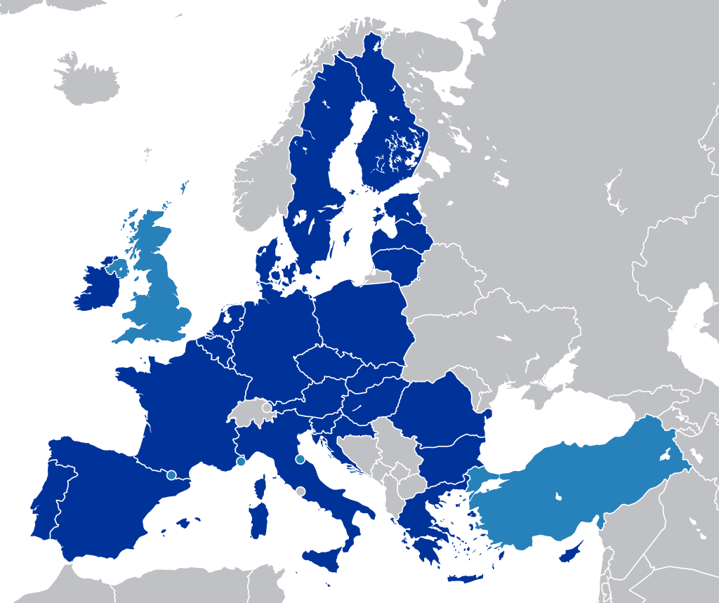 The EU Customs Territory. Dark blue countries are Member States of the EU, and the turquoise countries are participating in the EU Customs Union.